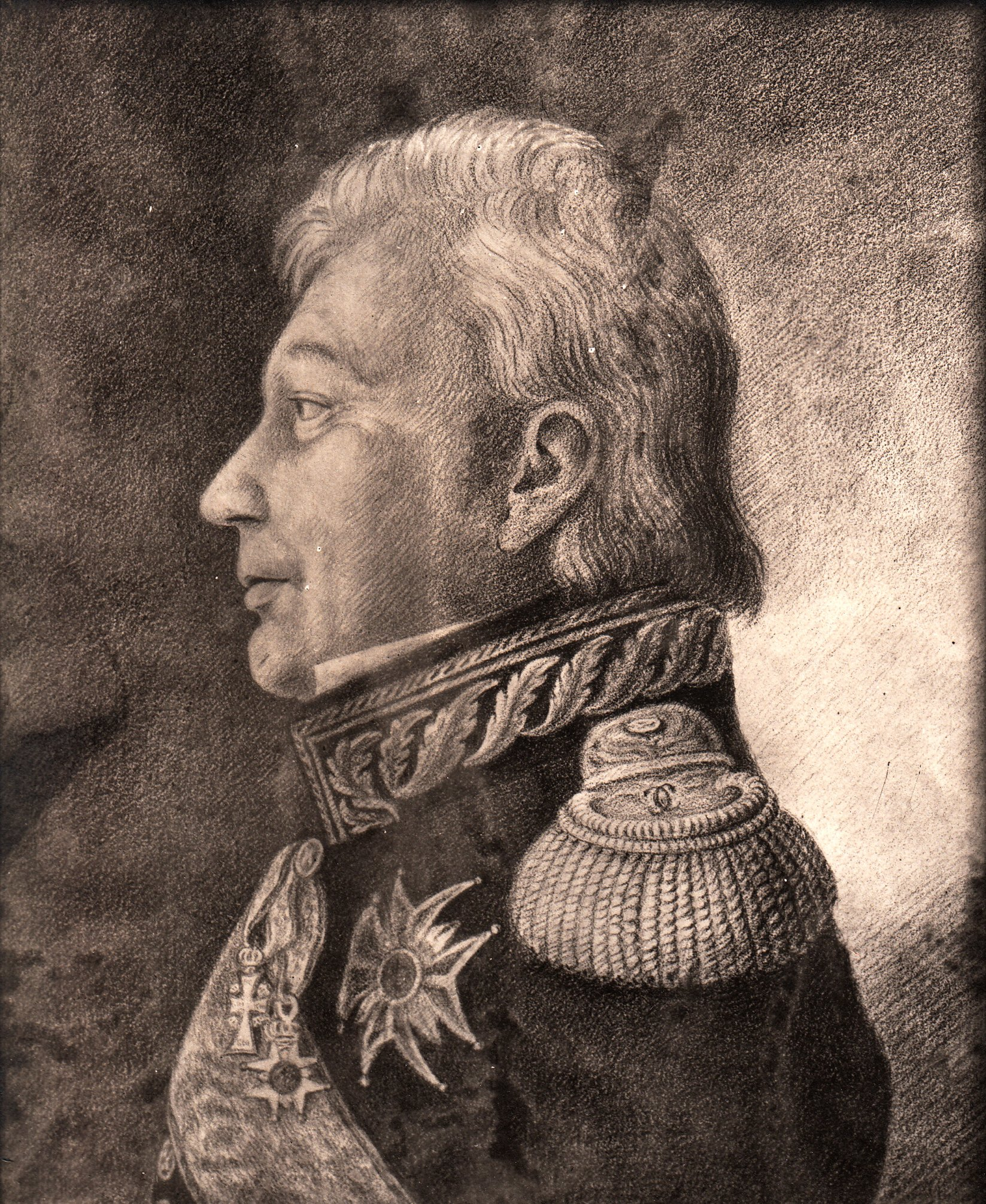 Fotopositiv. Place: Trondheim. Owner Institution: Trondheim byarkiv, The Municipal Archives of Trondheim Archive reference: Tor.H41.B41.F3087